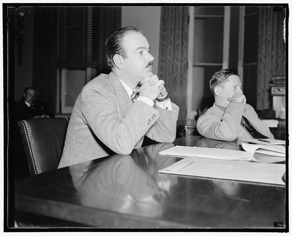 Arnold Gingrich, editor of Ken Magazine, on October 6, 1938, testified before the House of Representative Committee investigating Un-American activities.